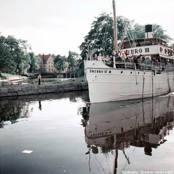 The ship "Örebro III"